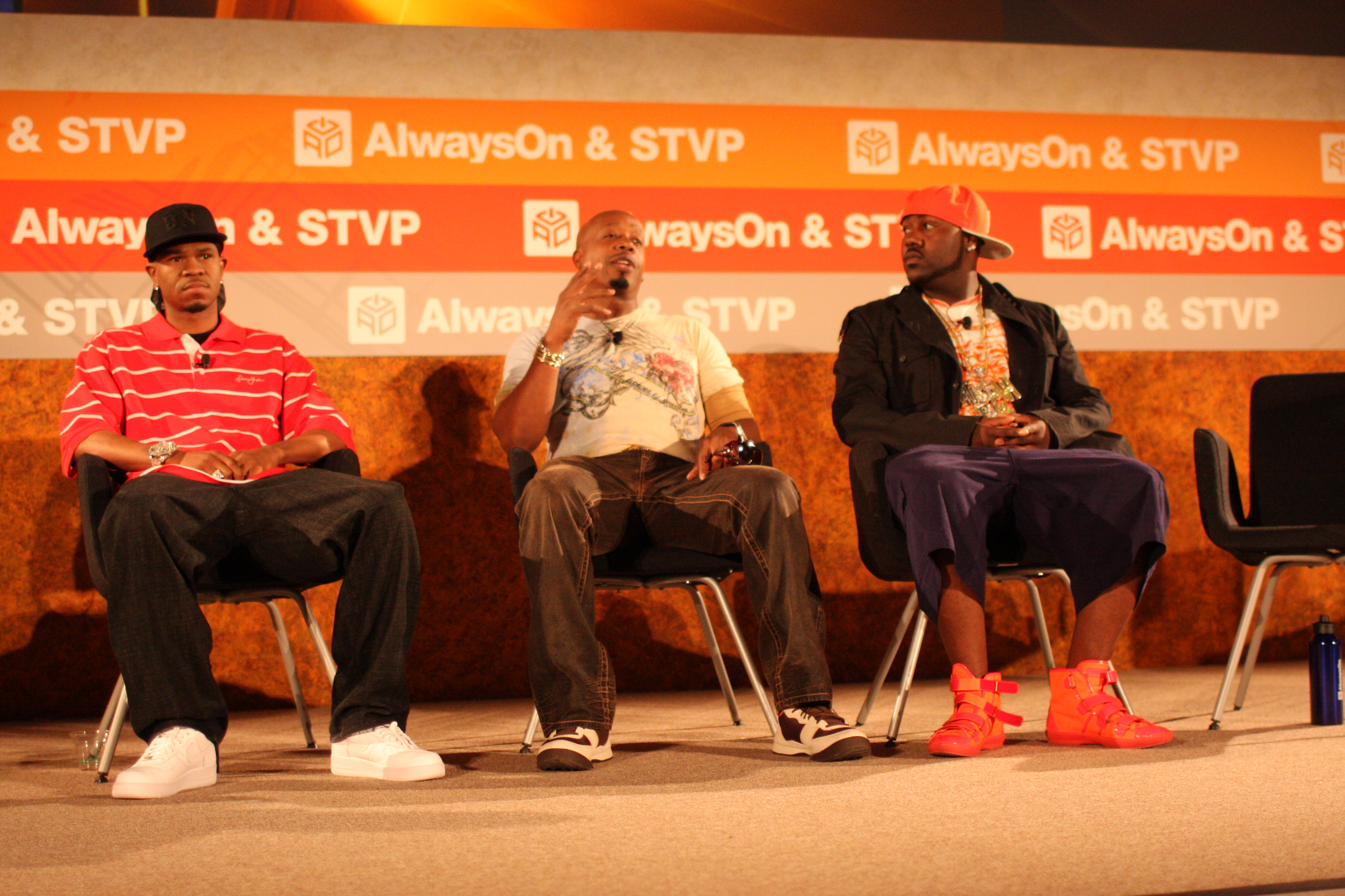 Chamillionaire, MC Hammer, Mistah F.A.B.. (CC) Brian Solis, and .